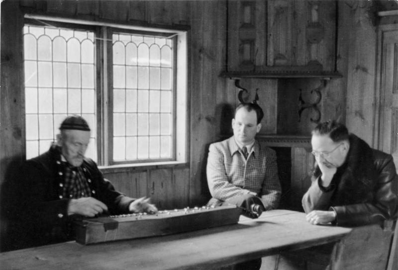 Information added by Wikimedia users.